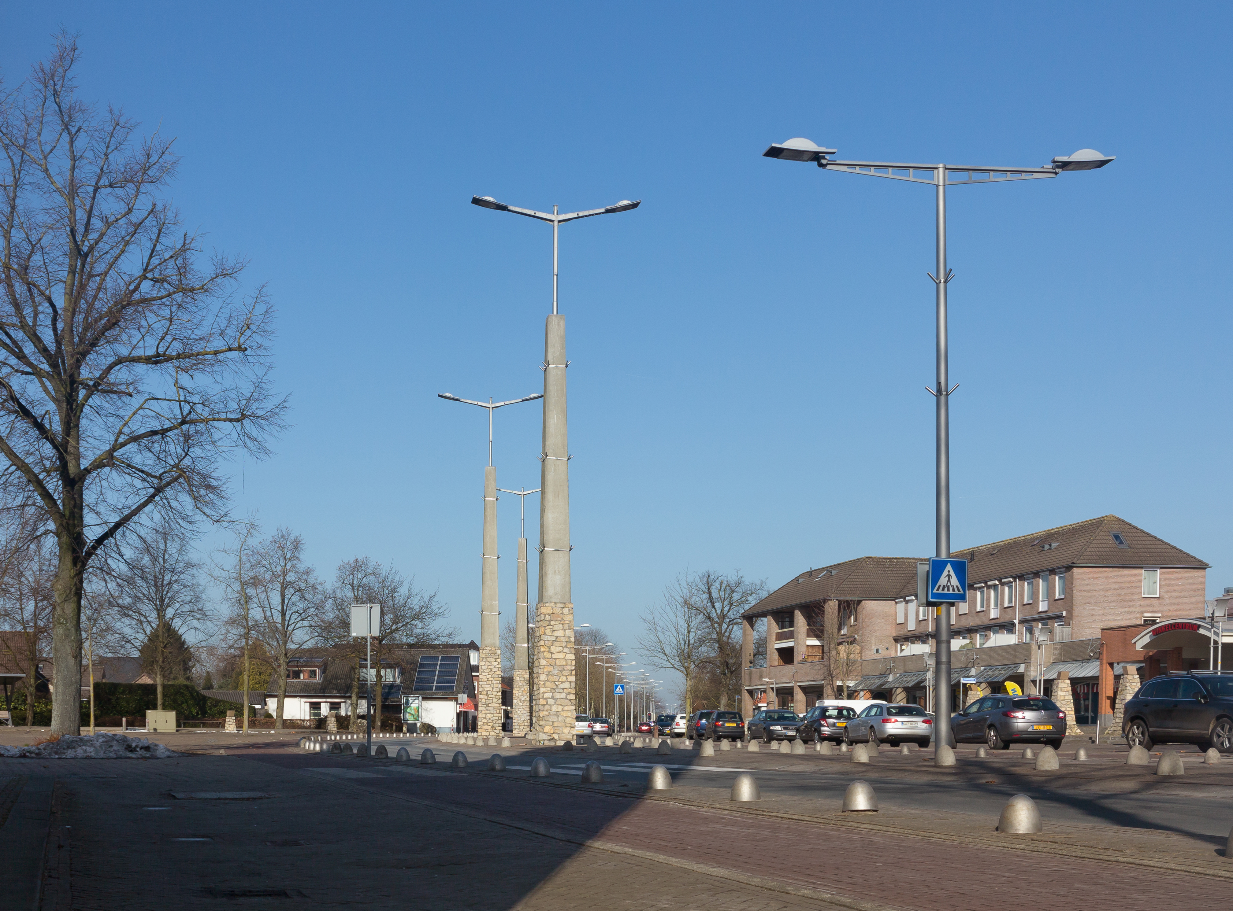 Malden, street view: de Rijksweg